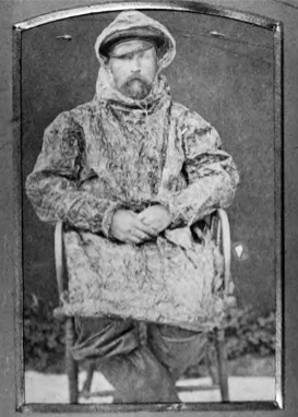 Benedykt Dybowski in Syberia